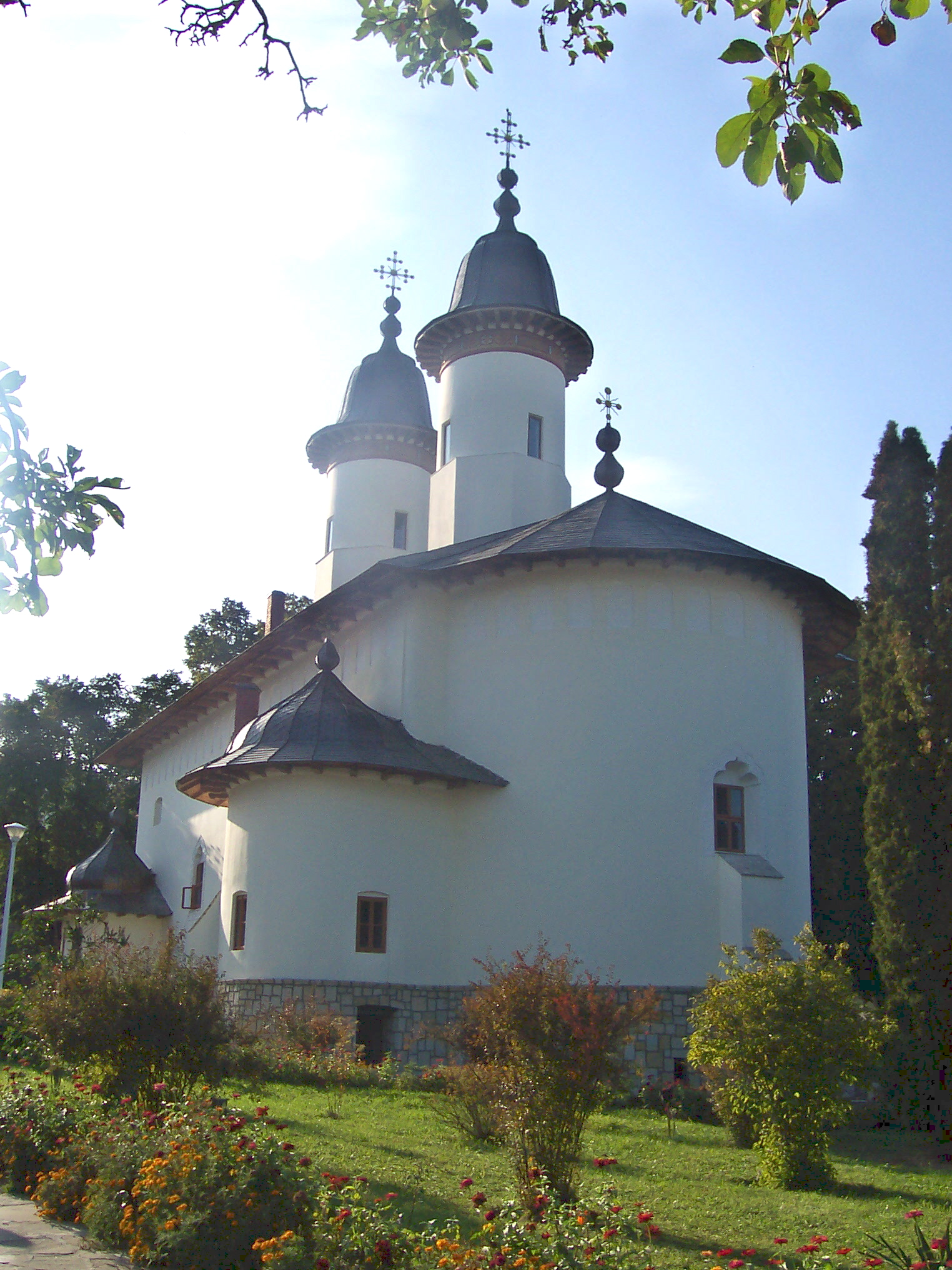 Own Work Church of Văratec Monastery, Neamţ, Romania